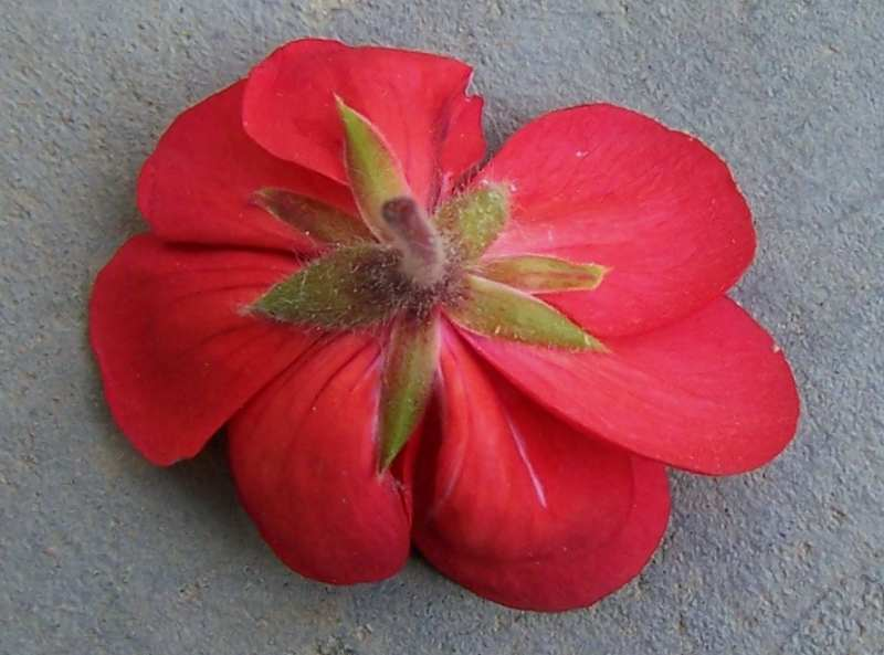 Pelargonium - flower